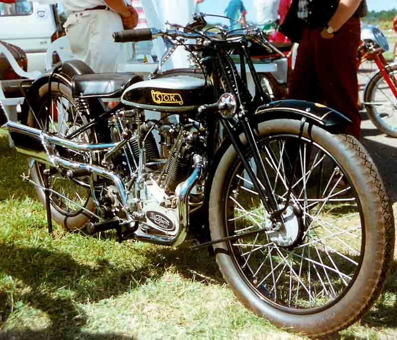 SOK Blackburne 700 cc TV Racer 1923